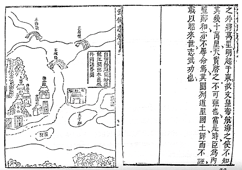 Pages from Ming Dynasty book Wu Bei Zhi (1628) (section of an ocean travel chart, believed to be based on Zheng He's expeditions)